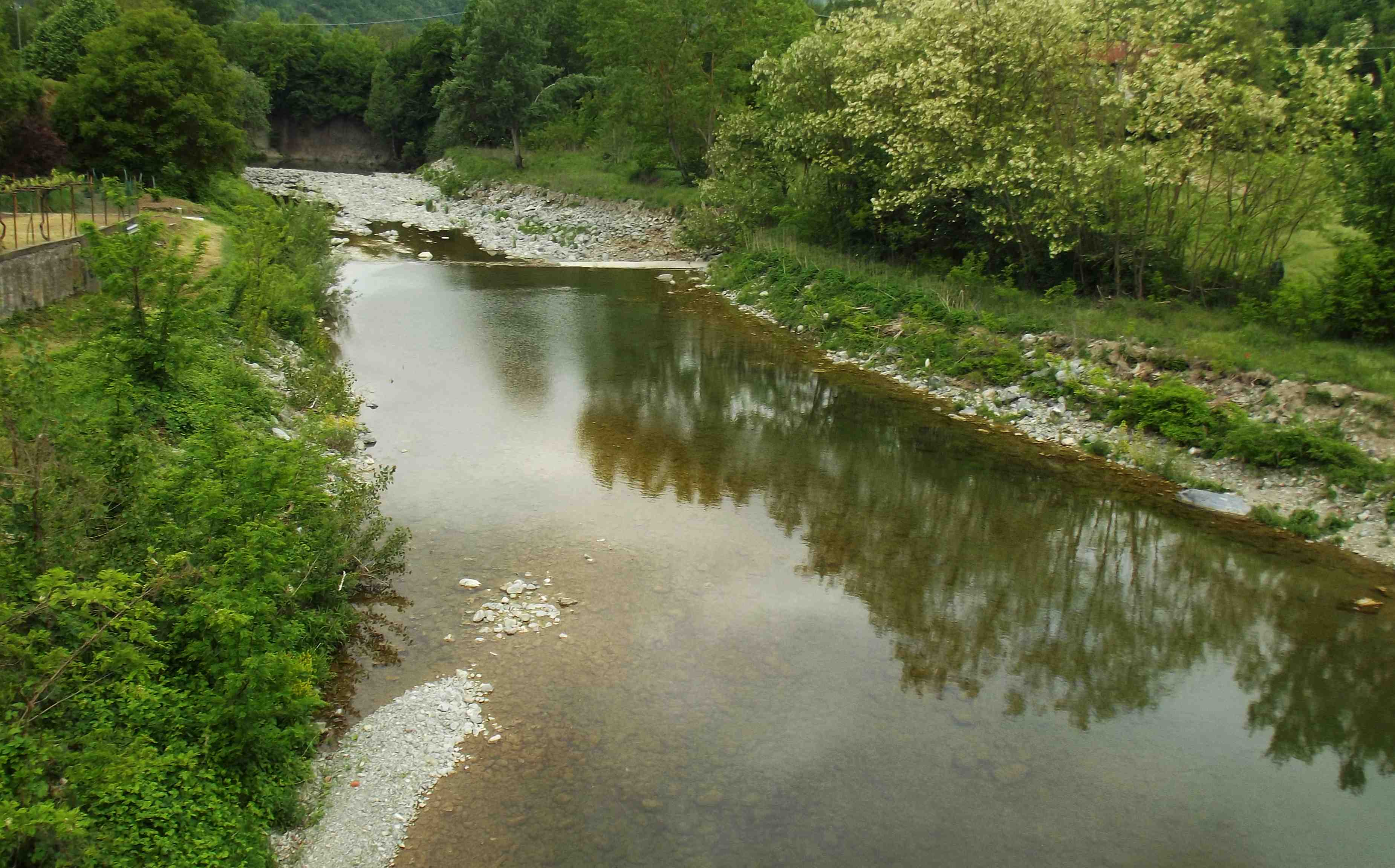 The Valla near its jonction with the Bormida di Spigno (Piedmont, Italy)